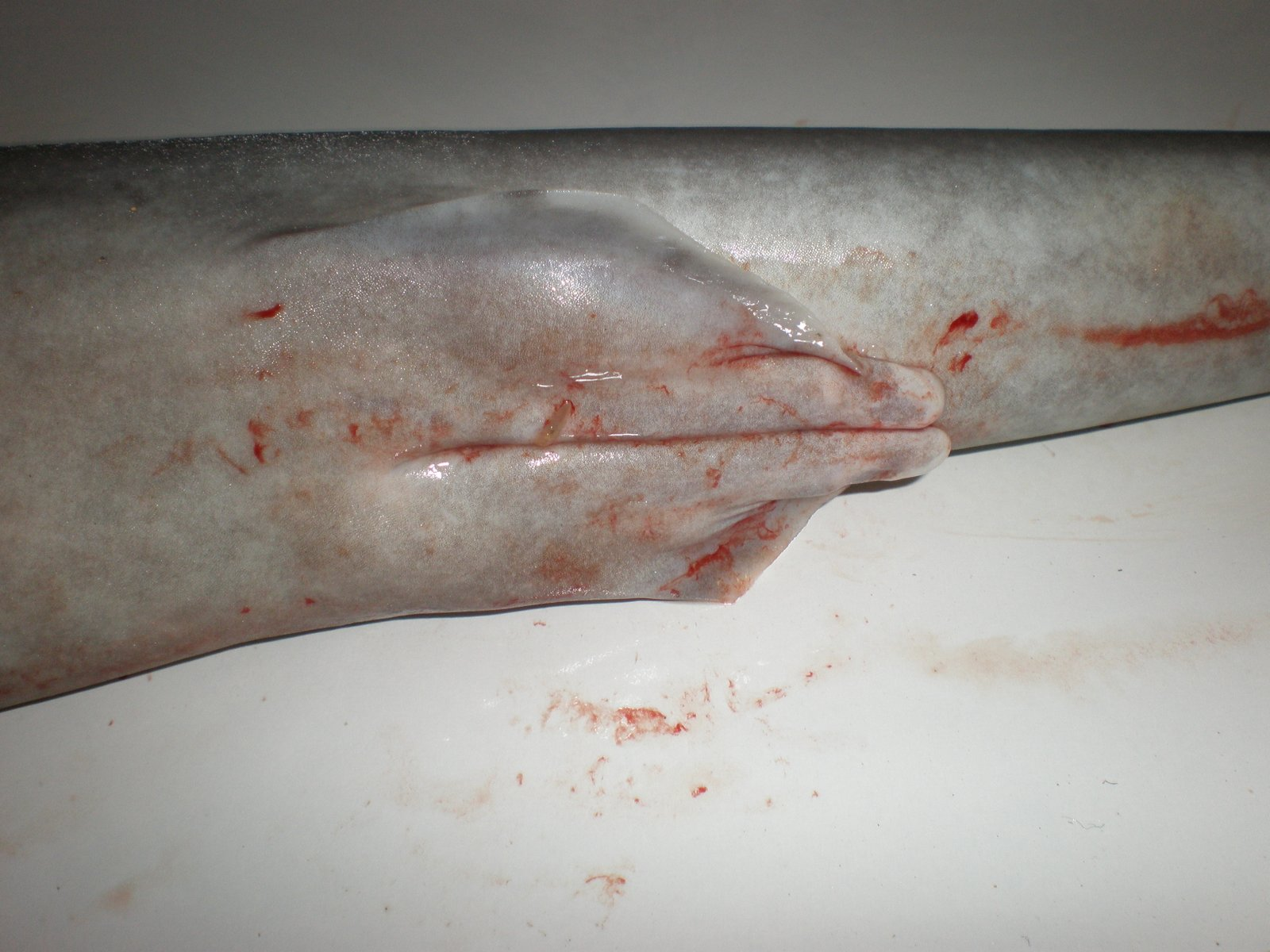 Squalus melanurus. Male parts. Locality: off passe de Dumbéa, off Nouméa, New Caledonia, depth 350 metres. Total length 650 mm, span 175 mm, Weight 1,000 grams. Specimen identified by Bernard Séret (IRD-MNHN). Date 2008-10-23.